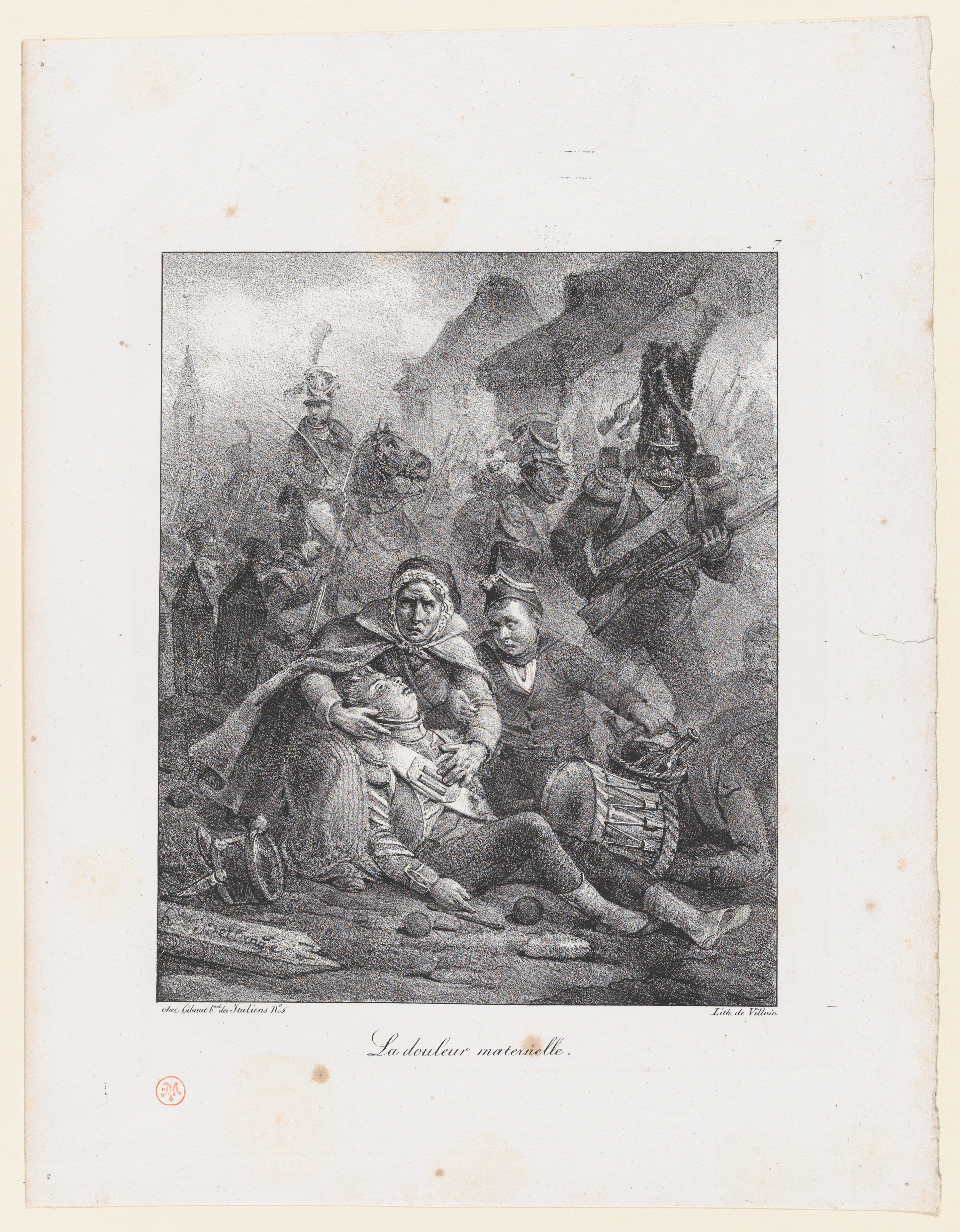 Print; Prints